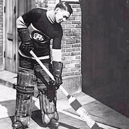 A photo of Georges Vézina, goaltender of the Montreal Canadiens, 1910-1925.